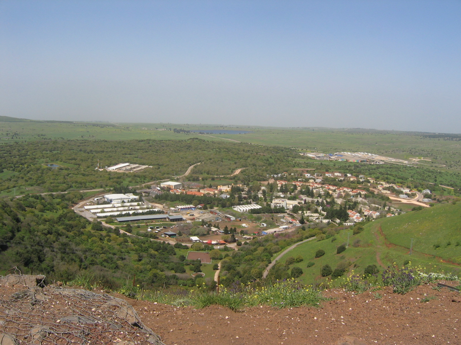 Geography of Israel